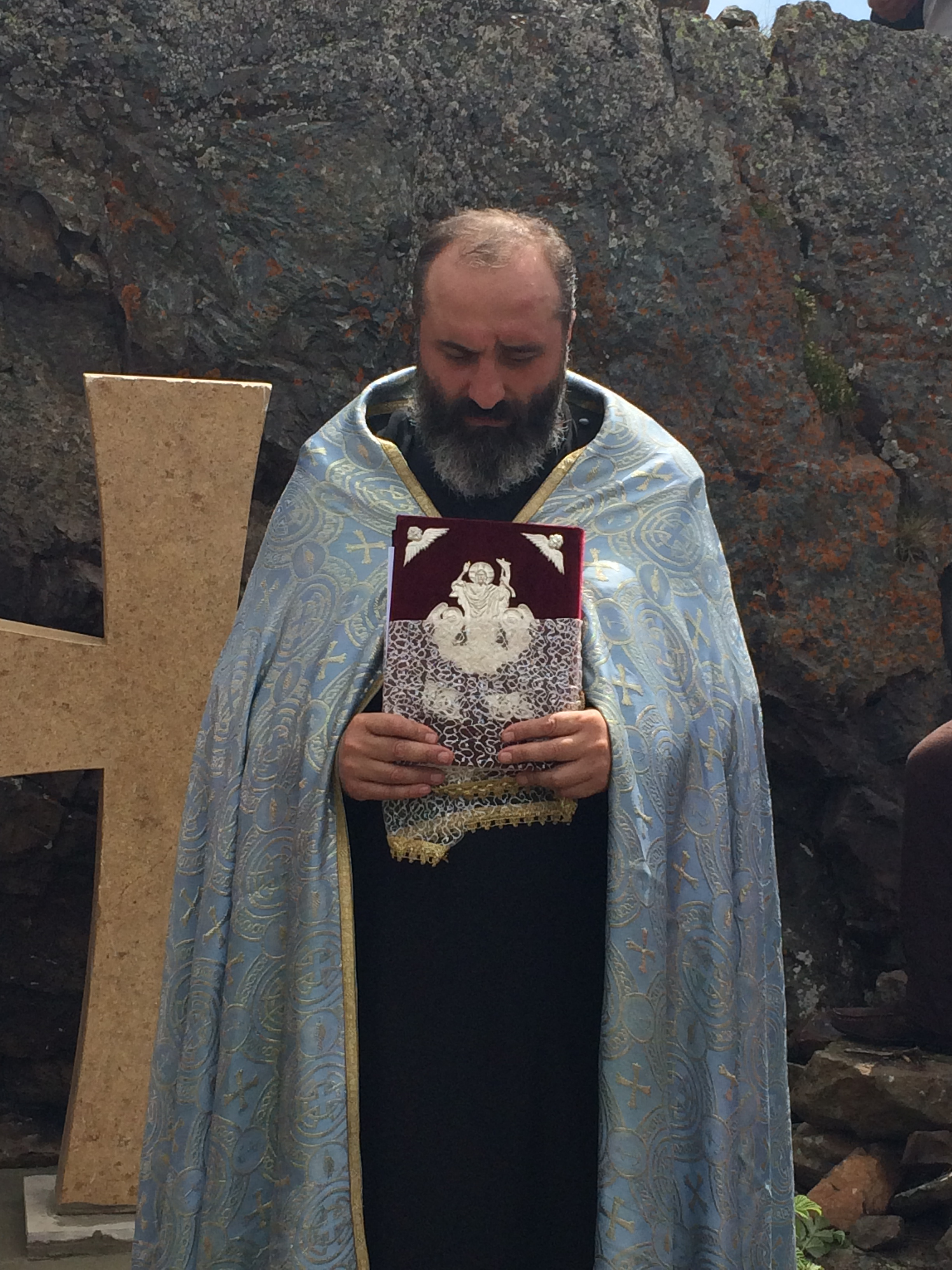 Priest of the Armenian Apostolic Church at the procedure of hallowing of the four sides of the Tavush Province on the top of the Mountain of Miapor (Mrghuz). 2014 August 9.